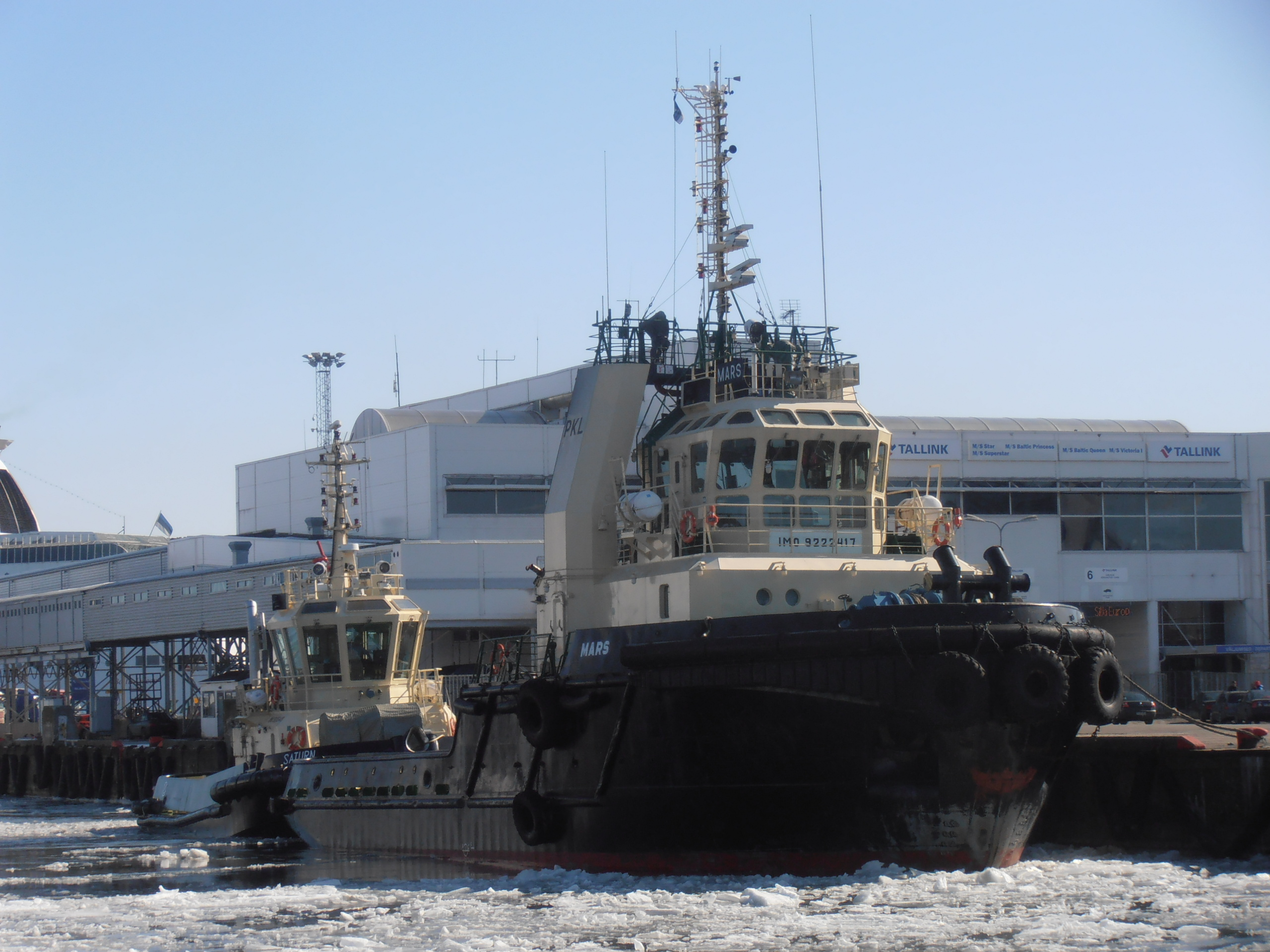 Saturn and Mars at quay 8 in Tallinn 3 April 2013 (Baltic Queen in the background)